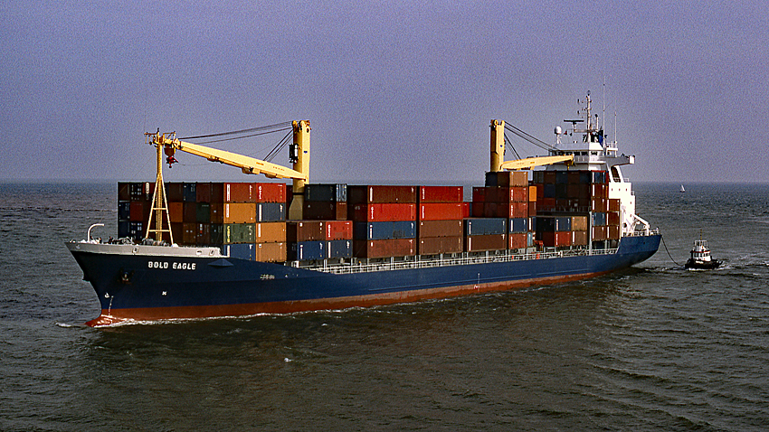 Eagle Container Lines Bold Eagle container ship approaching Felixstowe in 1986 Information about the vessel may be found at IMO 8415639.A ship can change name and flag state through time, but the IMO number remains the same through the hull's entire lifetime. As a result, it can be useful to identify a ship by using the IMO number. Scanned from a Kodachrome 35mm slide. Other names: Contship Europe, Kariba, Independent Pioneer P&O Nedlloyd Mombasa, Buxbeach Vento Di Meltimi Bernard A, Ayse A Scrapped in Turkey, 2017